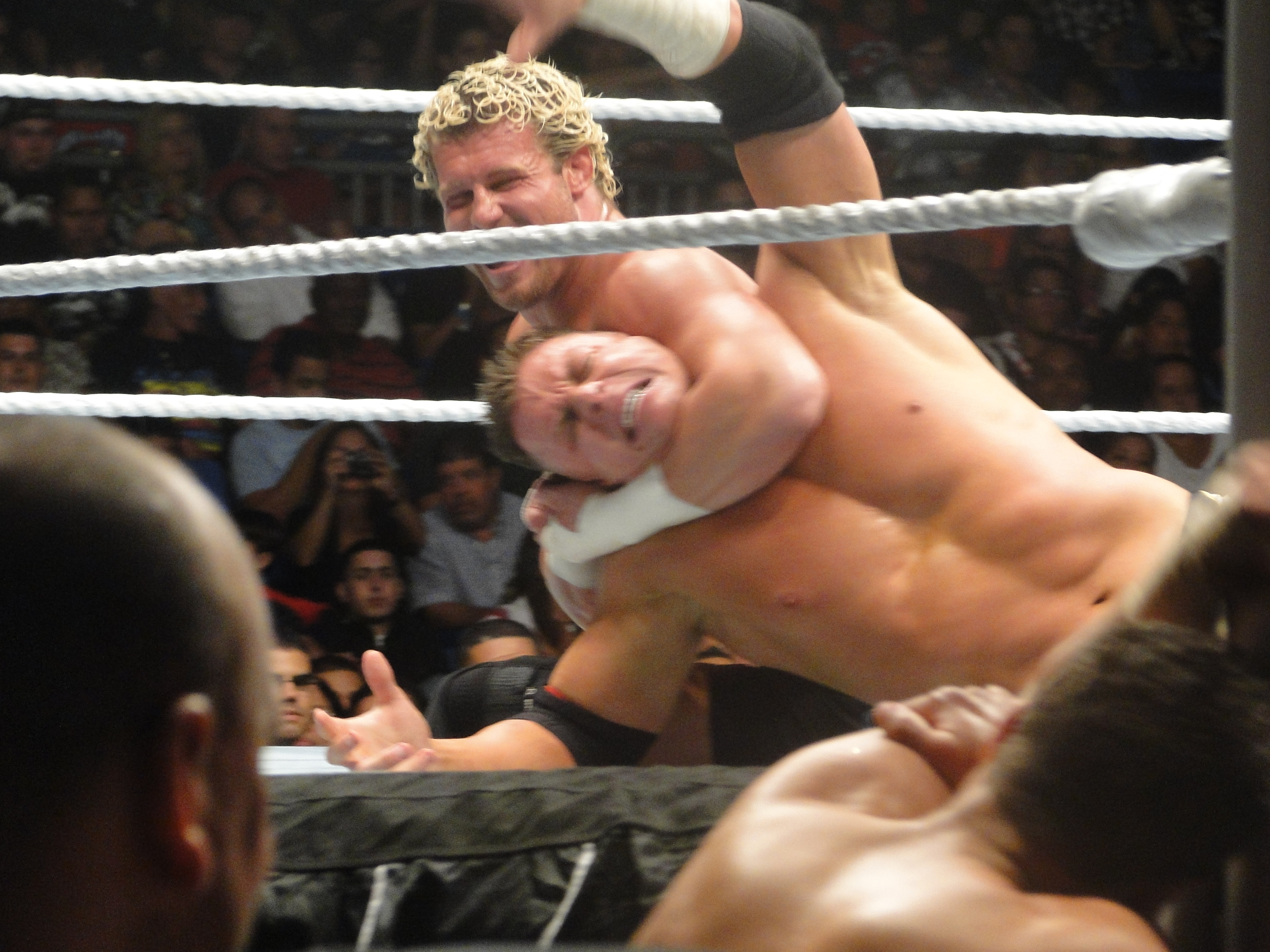 Dolph Ziggler applying a Sleeper hold to Alex Riley at a WWE live event in San Juan, Puerto Rico